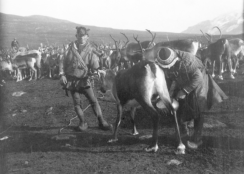 Reinbeitekommisjonen av 1913 ("Reindeer pastures Commission of 1913") conducted negotiations between Norway, Sweden and Finland to clarify the Sami's right to let their reindeer herds graze in the neighboring country. Read more on National Archives of Norway's Flickr album (text in Norwegian and all images marked with "No known copyright restrictions").